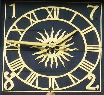 Poznan - City Hall, watch from 1782.